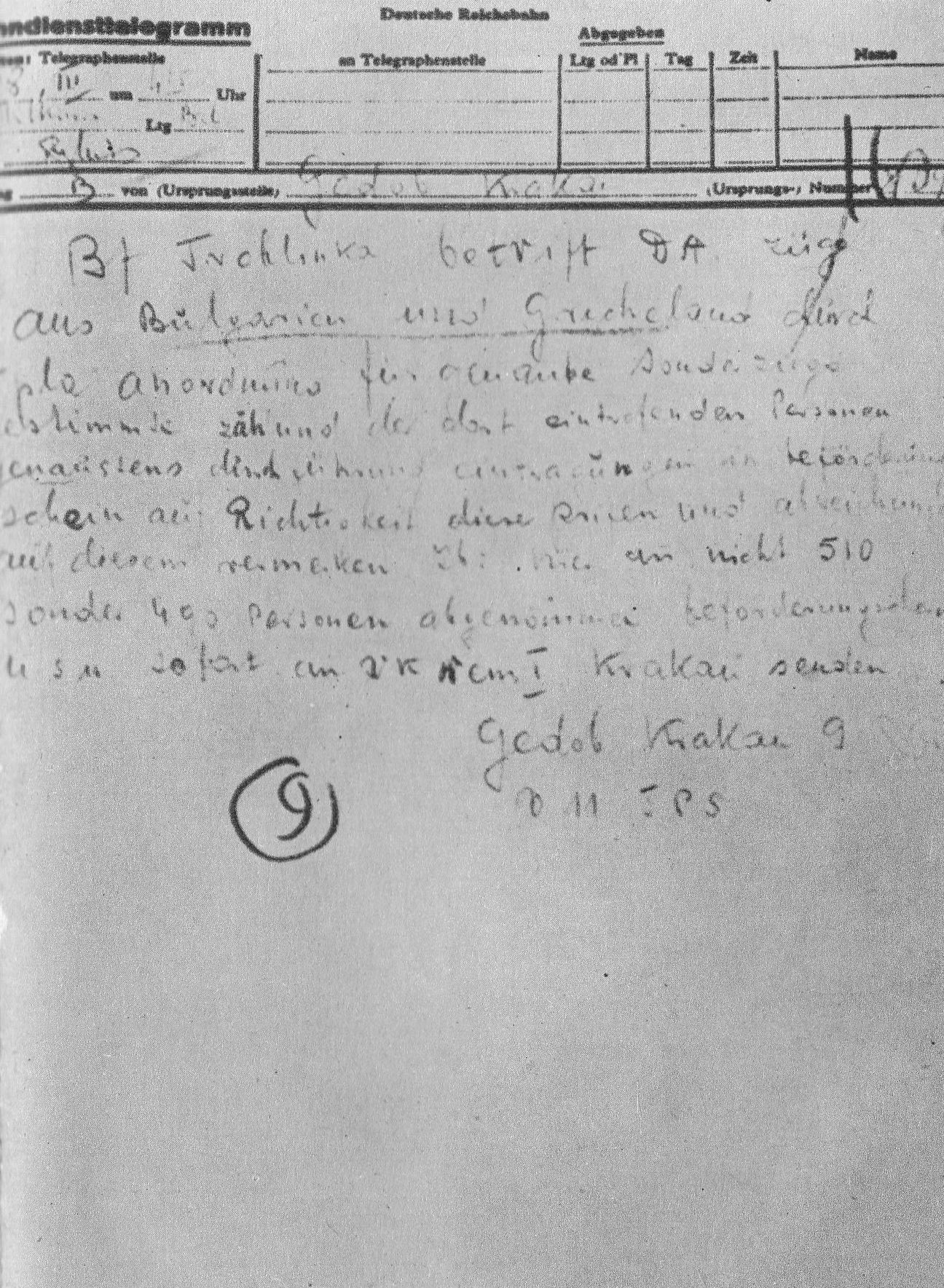 A telegram regarding commencing the train service from Bulgaria and Greece to Treblinka death camp